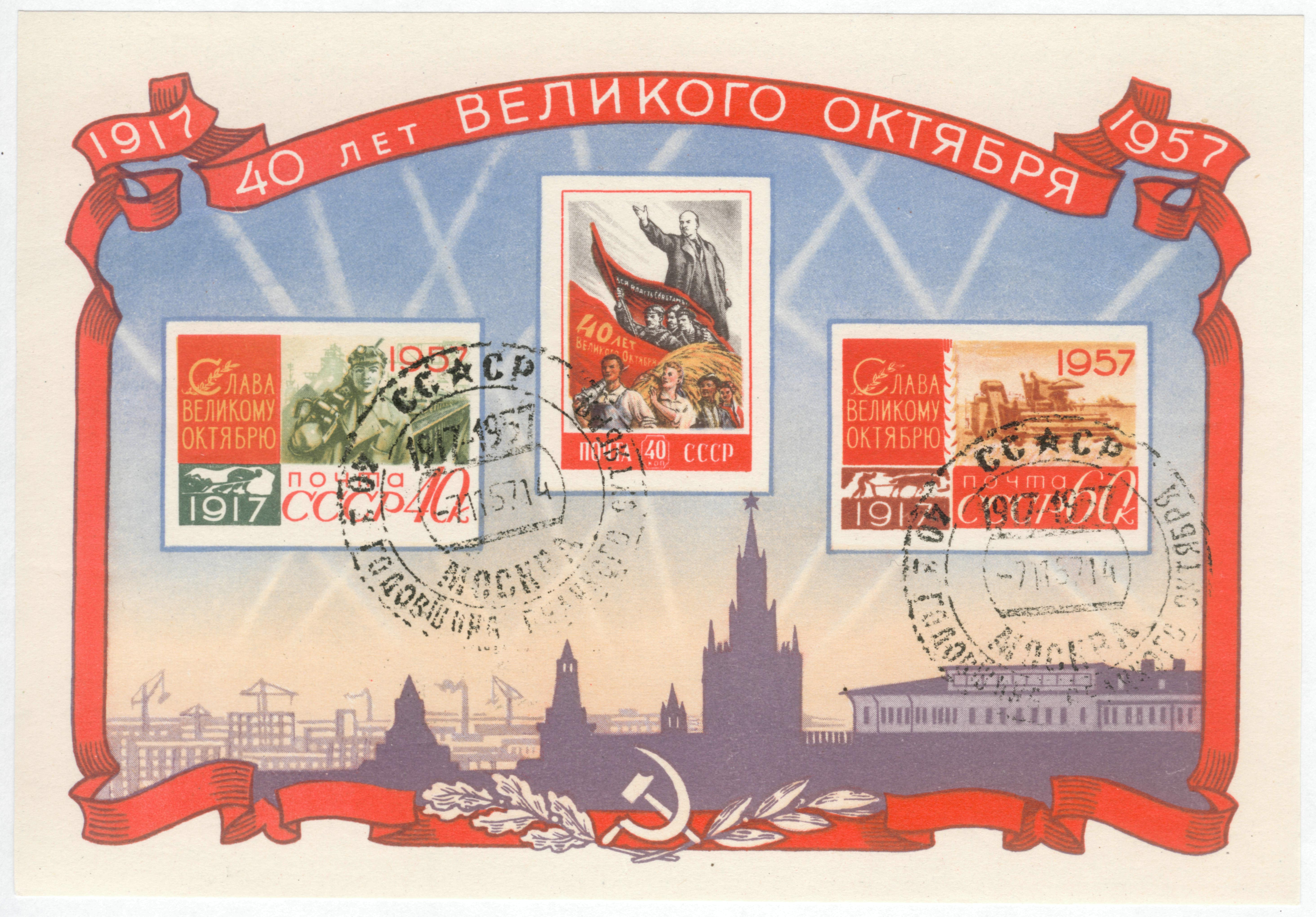 USSR miniature sheet (1 of 2), 1957, 40th anniversary of the October Revolution. First Day postmark.